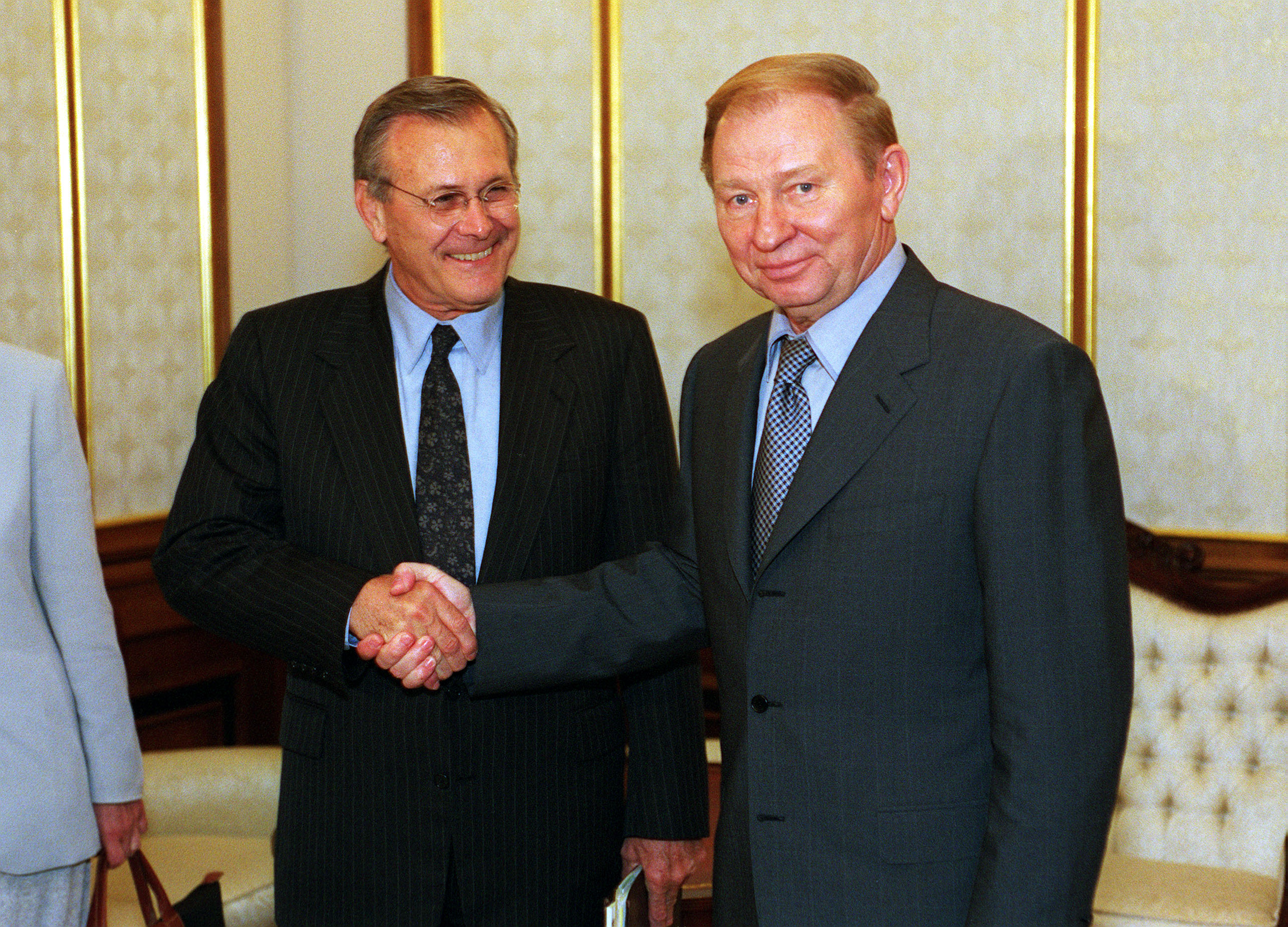 Secretary of Defense Donald H. Rumsfeld (left) and Ukrainian President Leonid Kuchma (right) pose for photographers in Kuchma's office in Kiev, Ukraine, on June 5, 2001. The two men will meet to discuss a range of security issues of interest to both nations. Kiev is Rumsfeld's second stop on a seven-day, seven-nation, European tour.